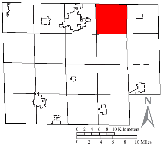 Made by the US Census and modified by myself